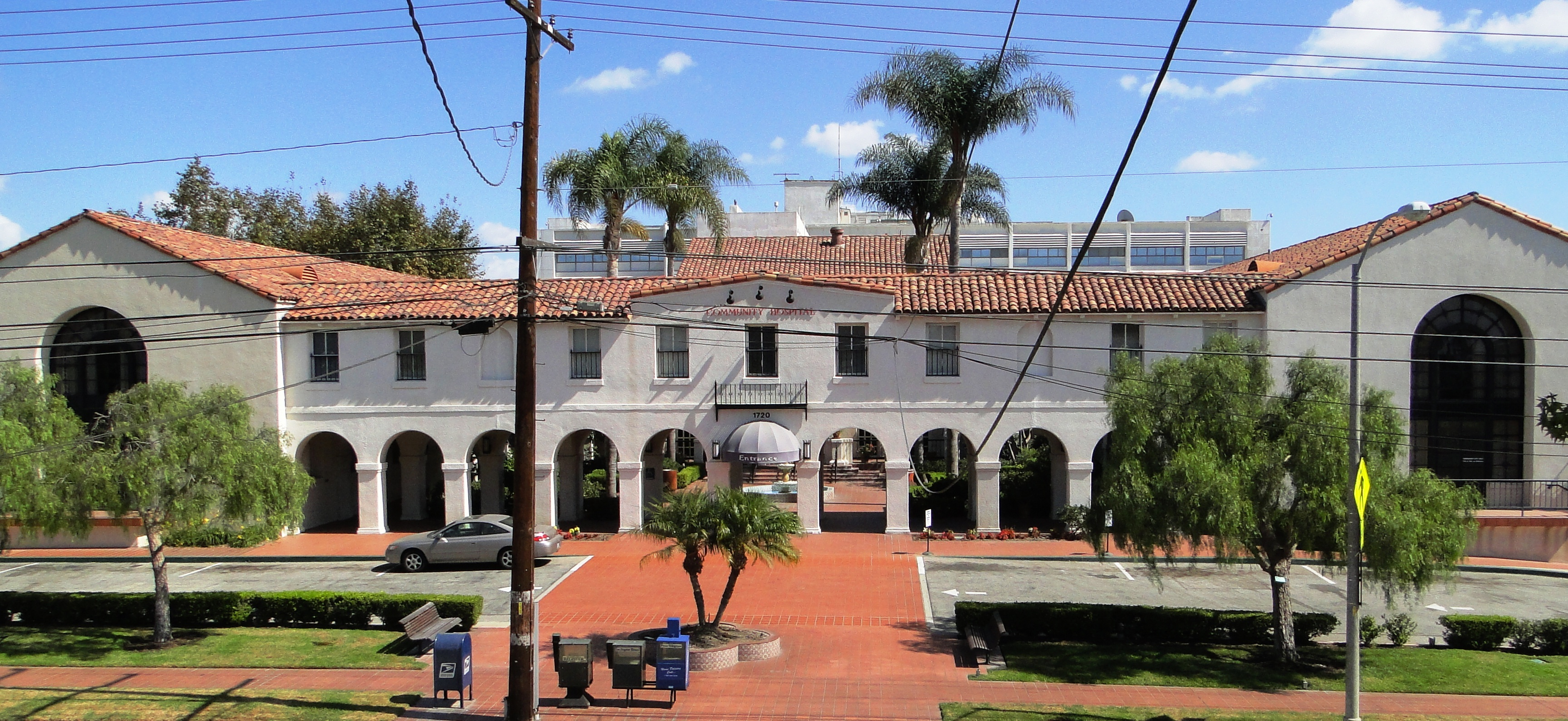 Long Beach Community Hospital, 1720 Termino Ave., Long Beach, California, Long Beach Historic Landmark # 16.52.040